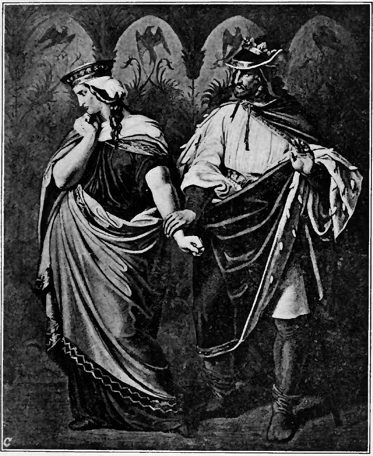 Captioned as "Gunther and Brunhilde".